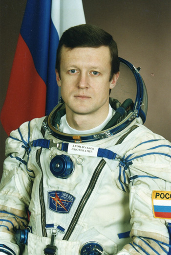 Portrait of cosmonaut Dmitri Yurievich Kondratyev